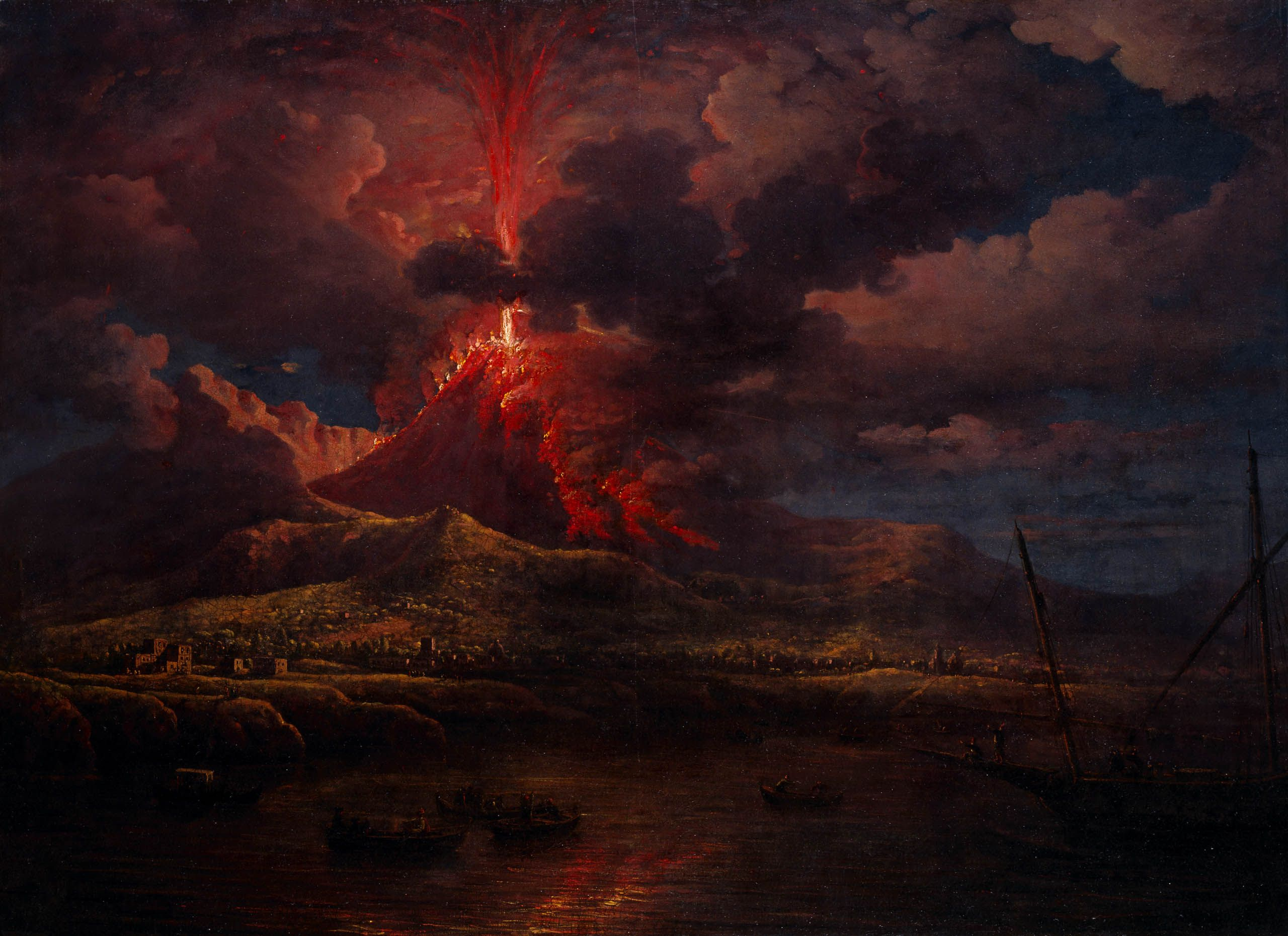 Vesuvius erupting at Night. Oil on Canvas. 36 x 50 in (91.5 x 127 cm).